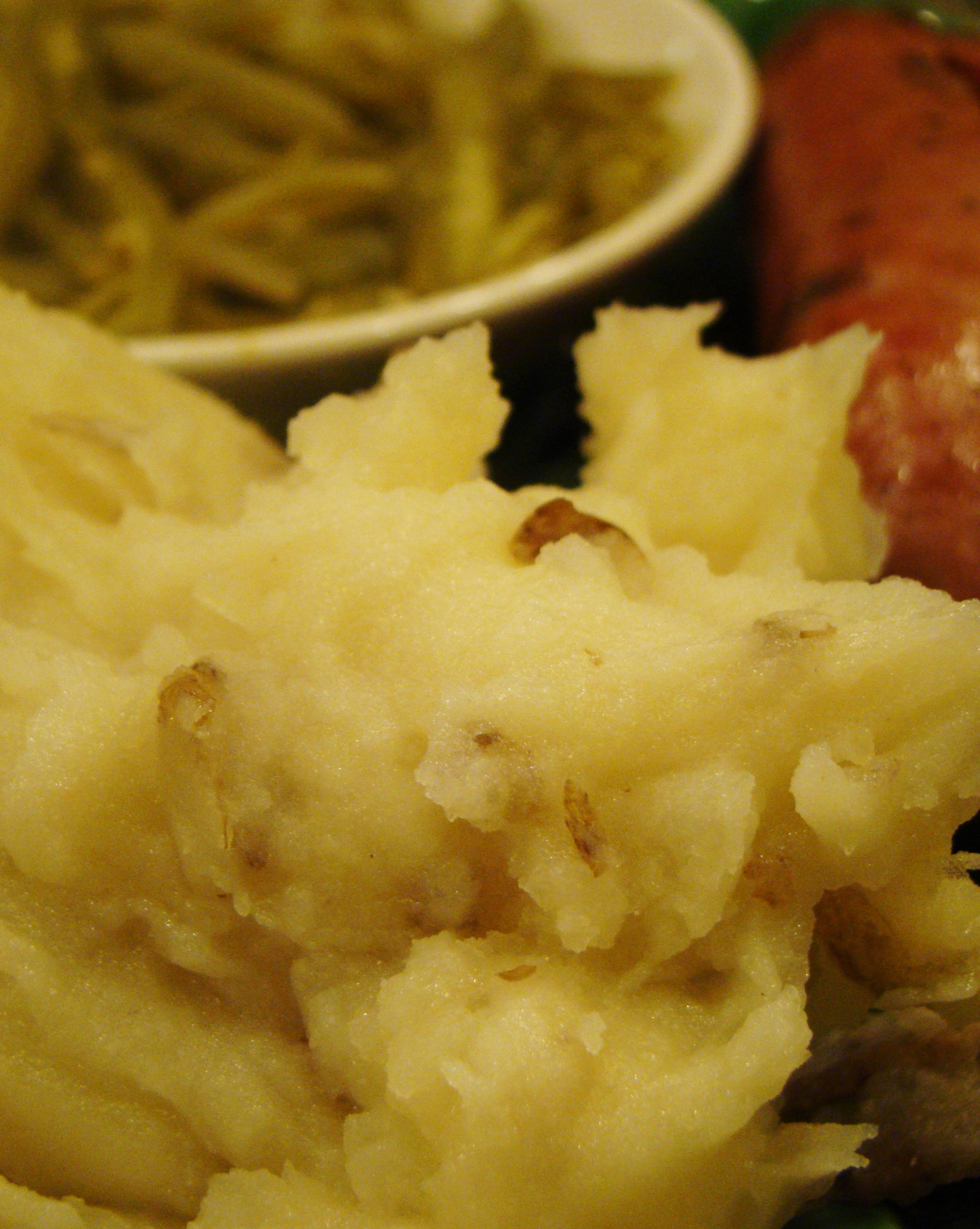 Garlic Smashed Potatoes Green Beans and Yves Veggie Vegan Bratwurst